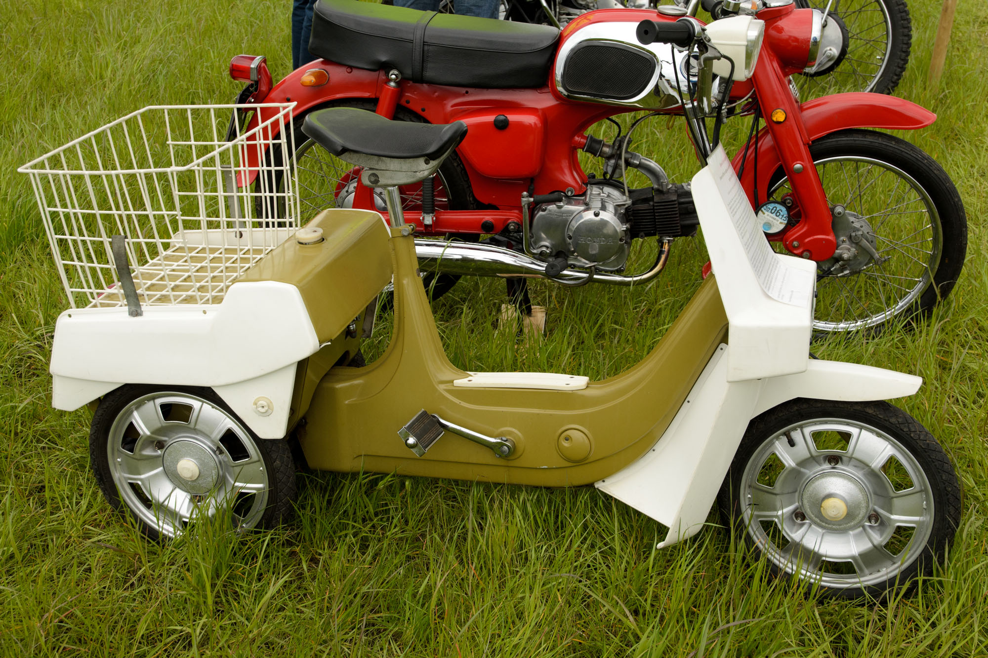 Ashley Hall Traction Engine Rally 25/05/2015 The Ariel 3 was a tricycle moped produced by the BSA factory in the UK. The Ariel 3 was not a sales success and its failure contributed to the demise of BSA.